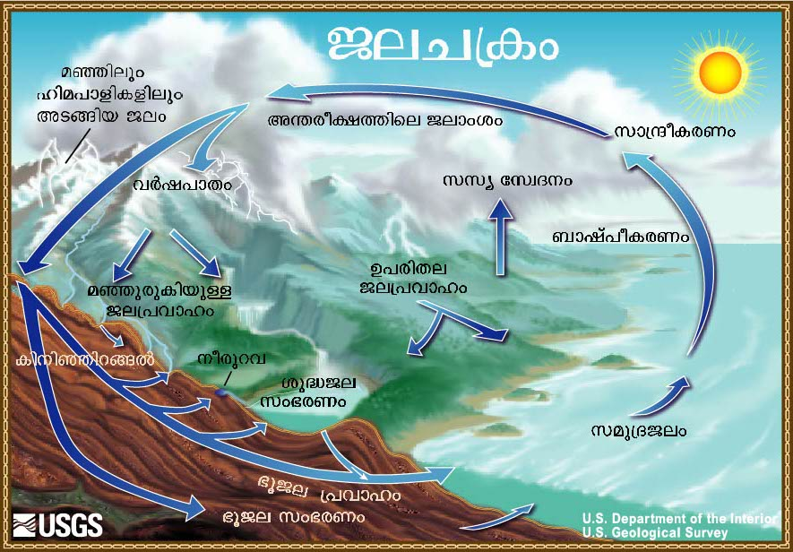 Water cycle Other language versions: *Català *Czech *español *Finnish *Greek *Japanese *Norwegian (bokmål) *Portuguese *Romanian *עברית *Diné bizaad (Navajo) *and no text and guess Source: English Wikipedia, original upload 27 April 2005 by Brian0918